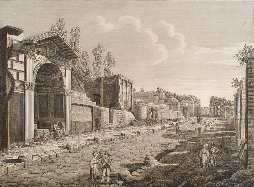 Necropolis of Porta Ercolano, Via dei Sepolcri, monumental tombs, north east side - seen engraving etching mm 407 x 535 Captions : Bottom left: Rossini Arch.o drew from the bottom right: and engraved in Rome 1830 at the bottom of the center: Via dei Sepolcri in Pompei. This view is part of the aforementioned street, and in the end you can see the Gateway to the City. Realization : Rome , 1830 Designer : Luigi Rossini Incisor : Luigi Rossini In : Rossini L., The Antiquities of Pompeii outlined on discoveries made up to the year MDCCCXXX ... , Rome, circa 1831, c.